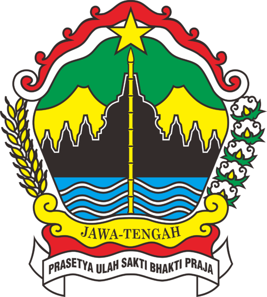 Coat of arms of Central Java